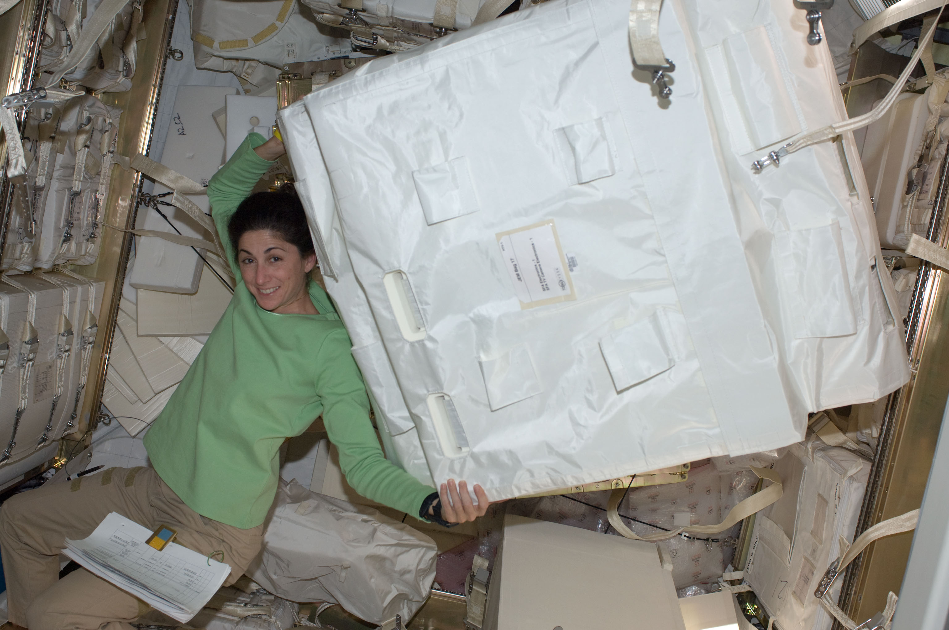 NASA astronaut Nicole Stott, Expedition 20/21 flight engineer, moves a stowage container in the Japanese H-II Transfer Vehicle (HTV) docked to the Harmony node of the International Space Station.